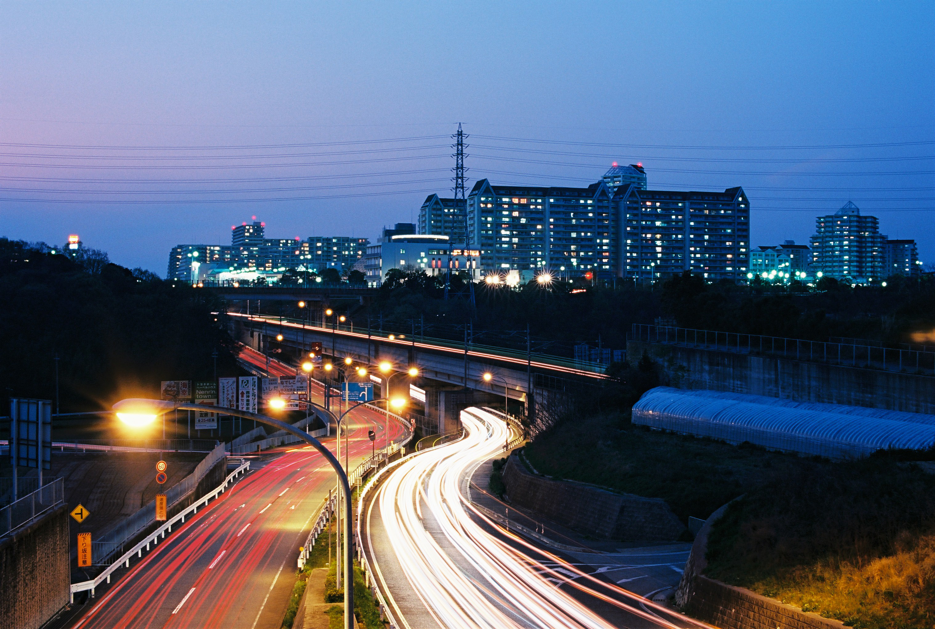 A fixed double exposure. SA-9 with 50/1.4 + Marumi F-WL Kodak Professional Ektar 100 f/11.0 30sec*2times=60sec